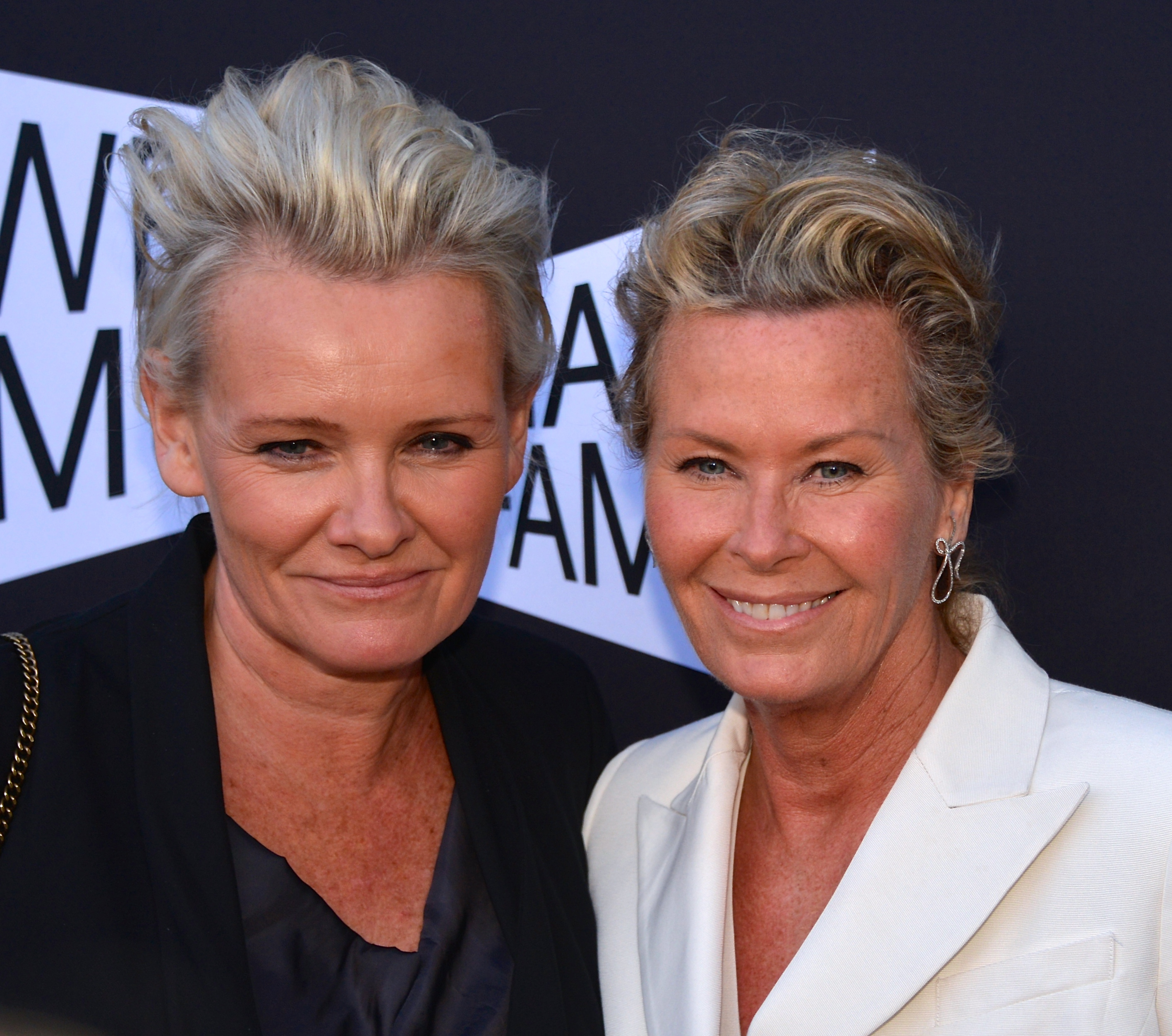 Eva Dahlgren and Efva Attling during the opening of ABBA: The Museum May 6, 2013.